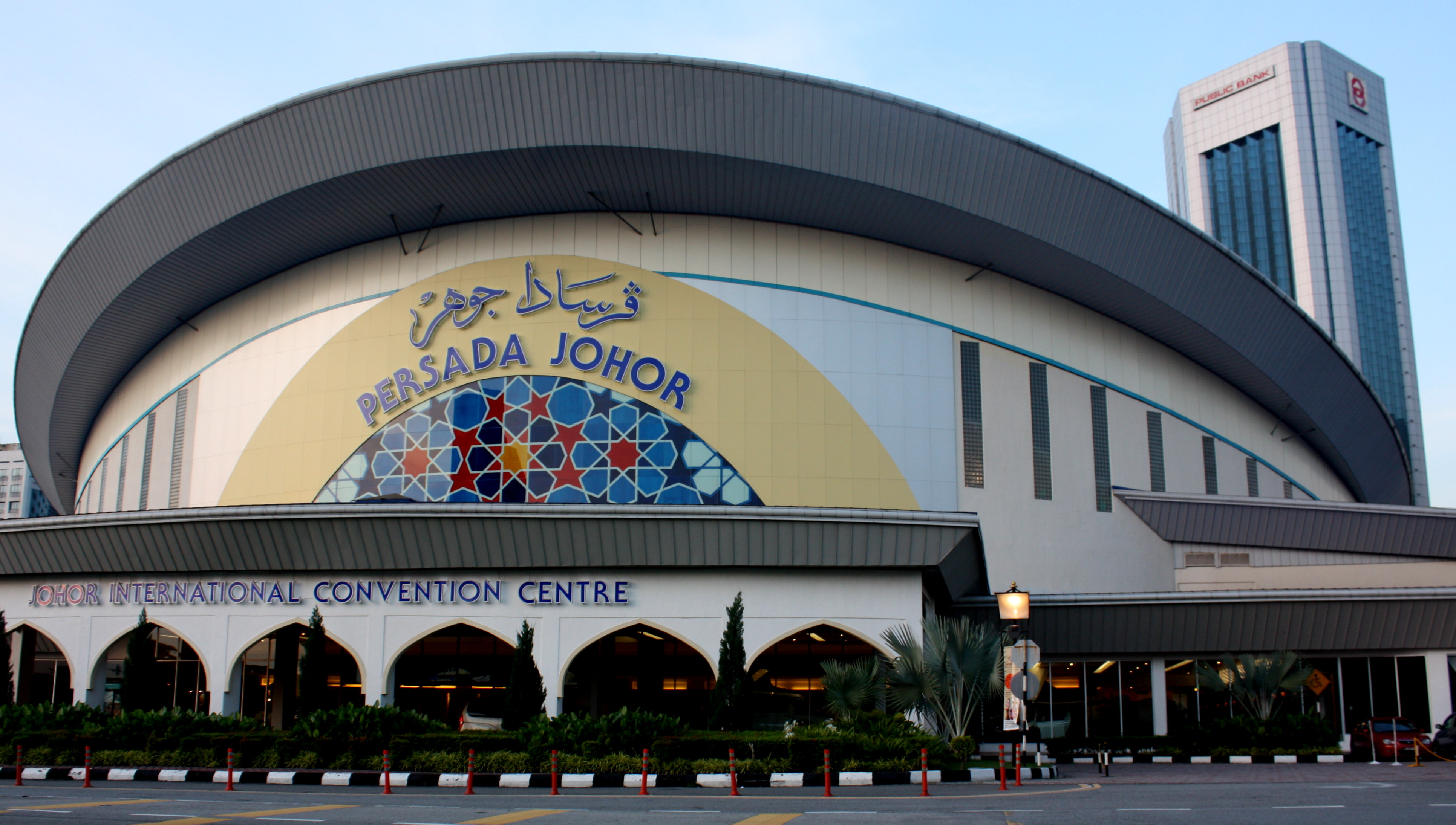 Persada Johor International Convention Centre in Johor Bahru, taken by Wolfgang Holzem /